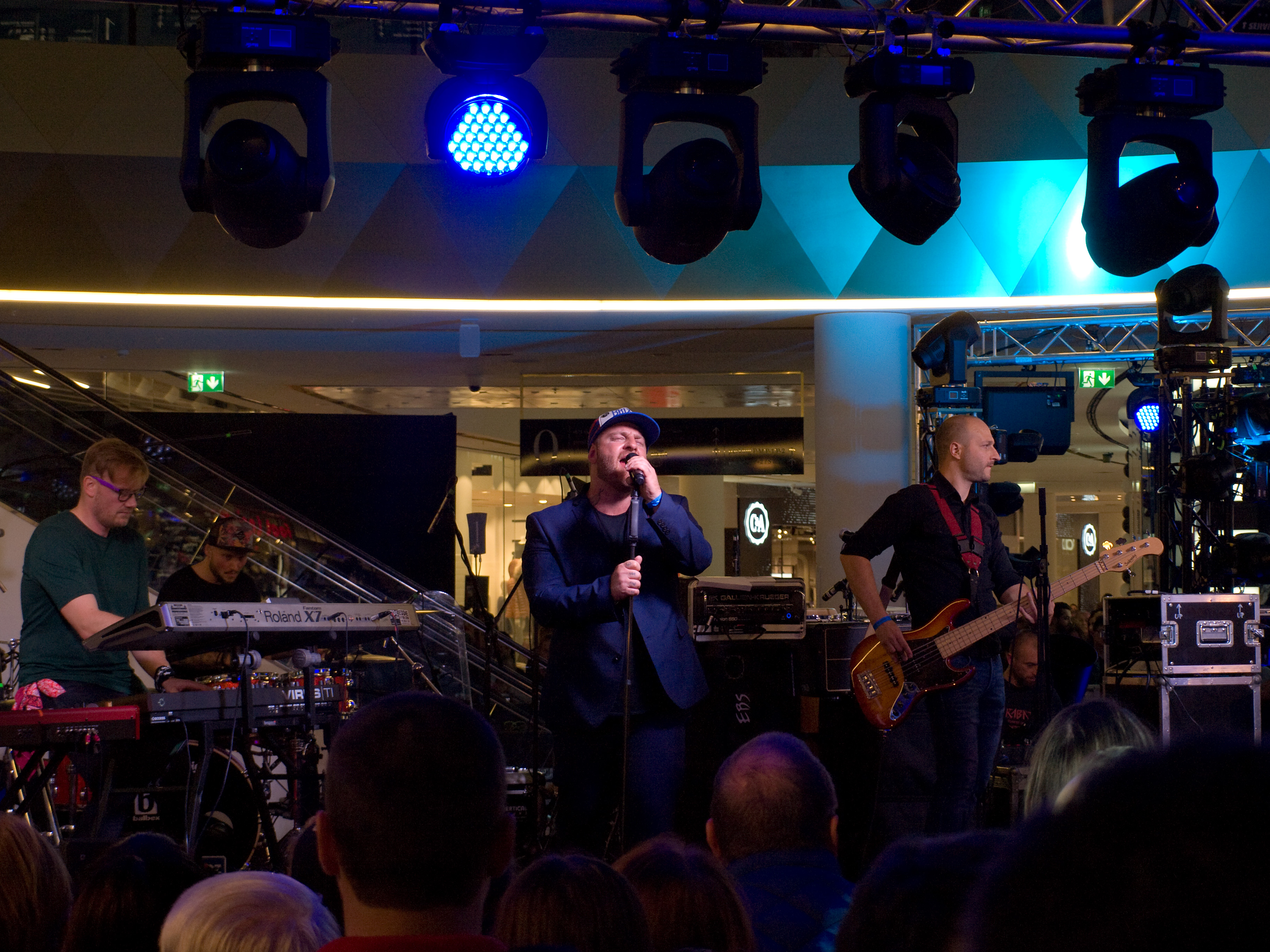 Czech musical group Eddie Stoilow in Centrum Chodov